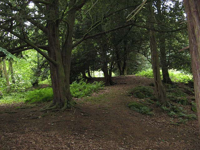 Woodland, Castle Hill Dark yew woods, Fordell Firs.